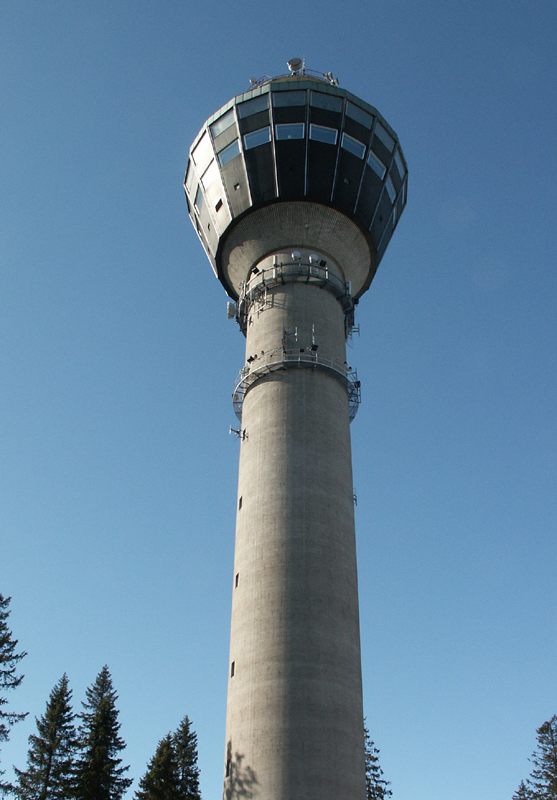 Puijo tower in the city of Kuopio, Finland. Built in 1963.